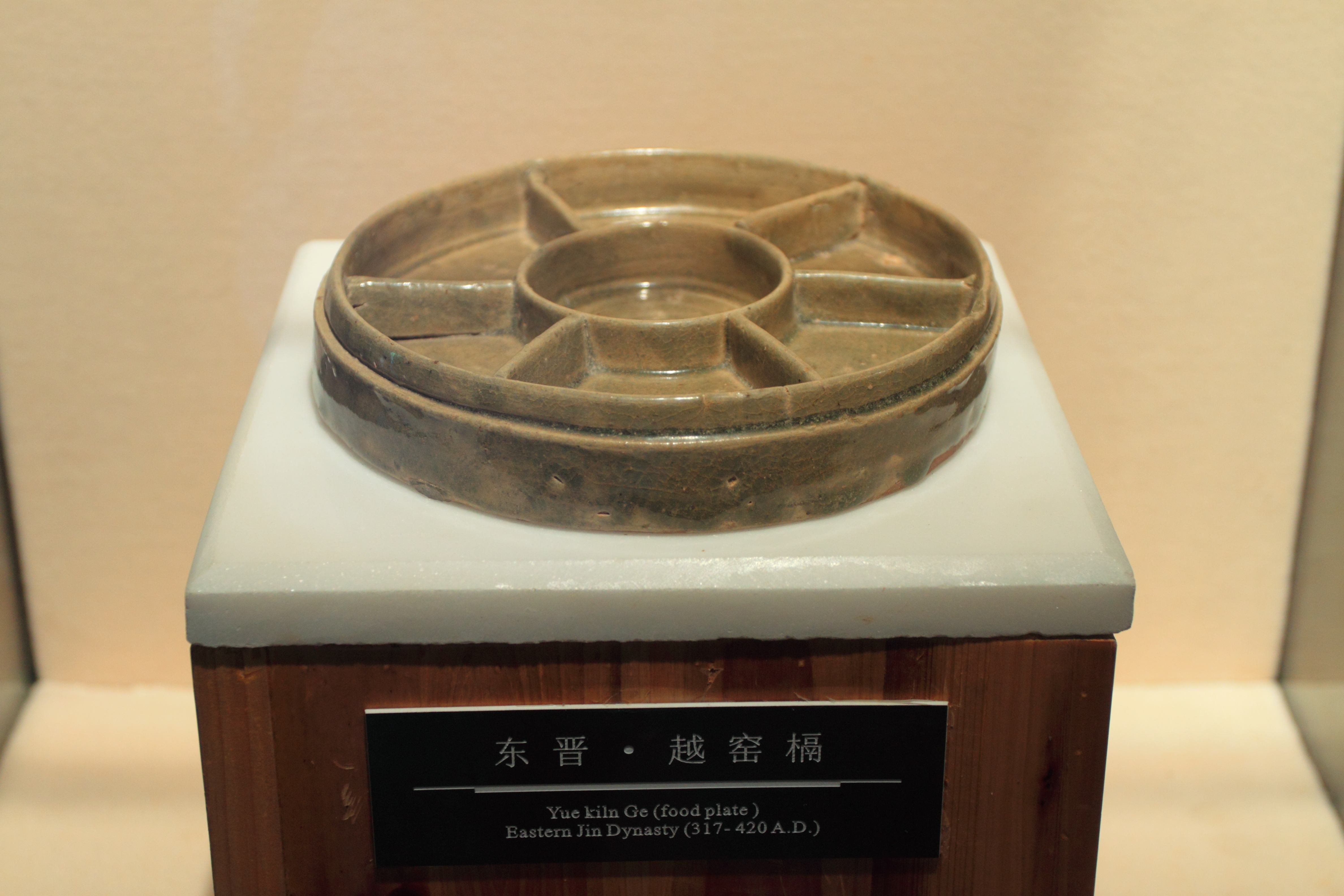 Yue kiln ge (food plate). Eastern Jin Dynasty. Southern Song Dynasty Guan Kiln Museum